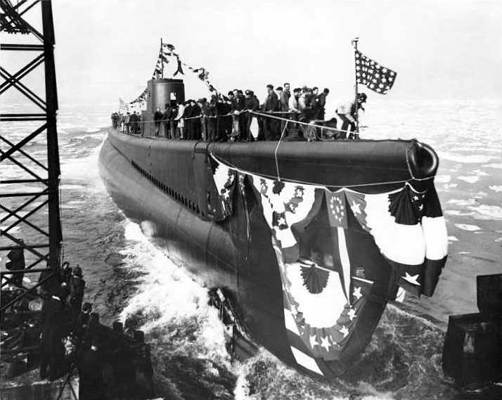 USS Bluefish; Bluefish (SS-222), slides down the ways at the Electric Boat Co., Groton, CT., 21 February 1943. USN photo courtesy of